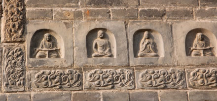 Dengzhou fushengsi